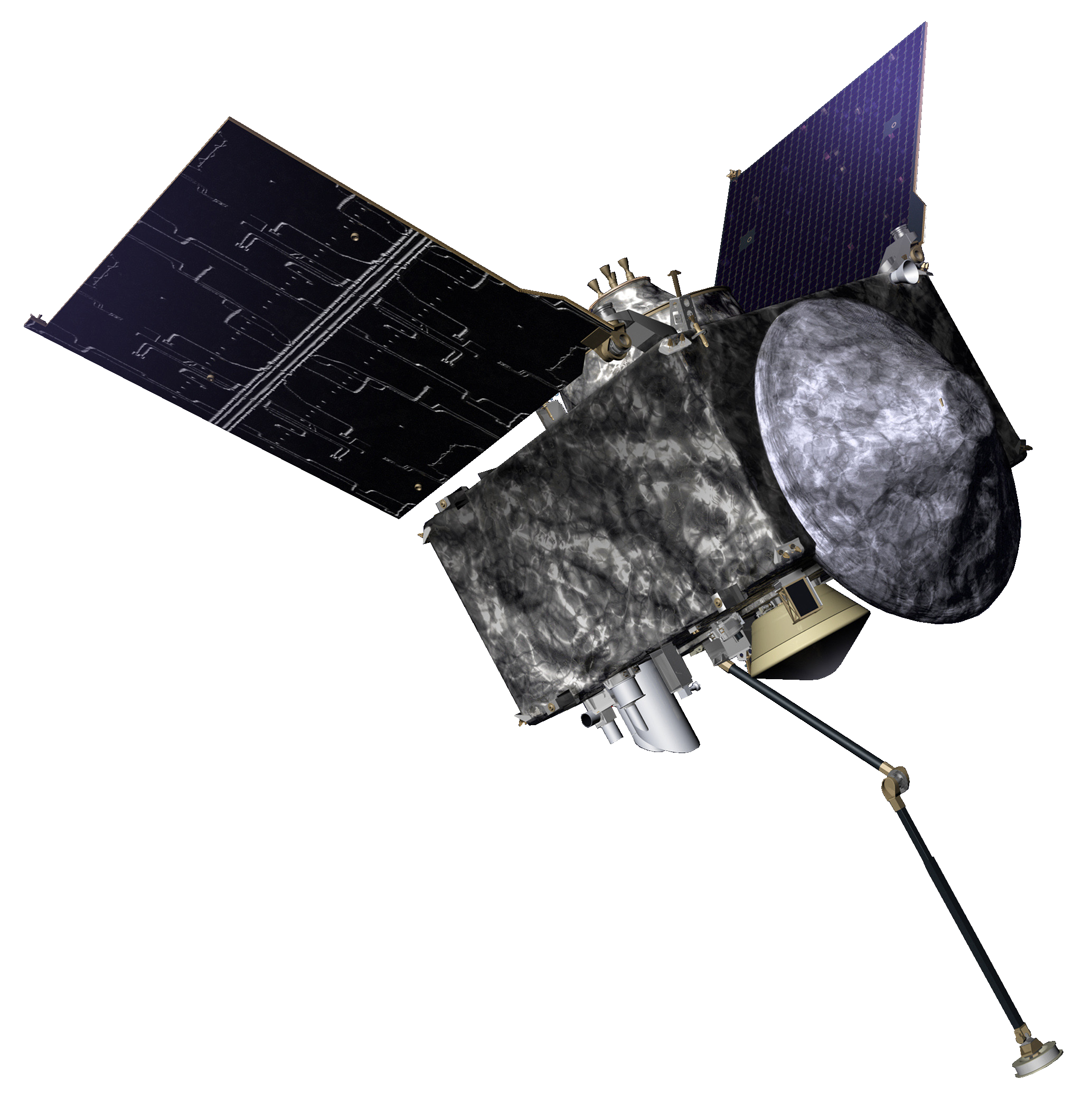 An artists' depiction of the OSIRIS-REx spacecraft.